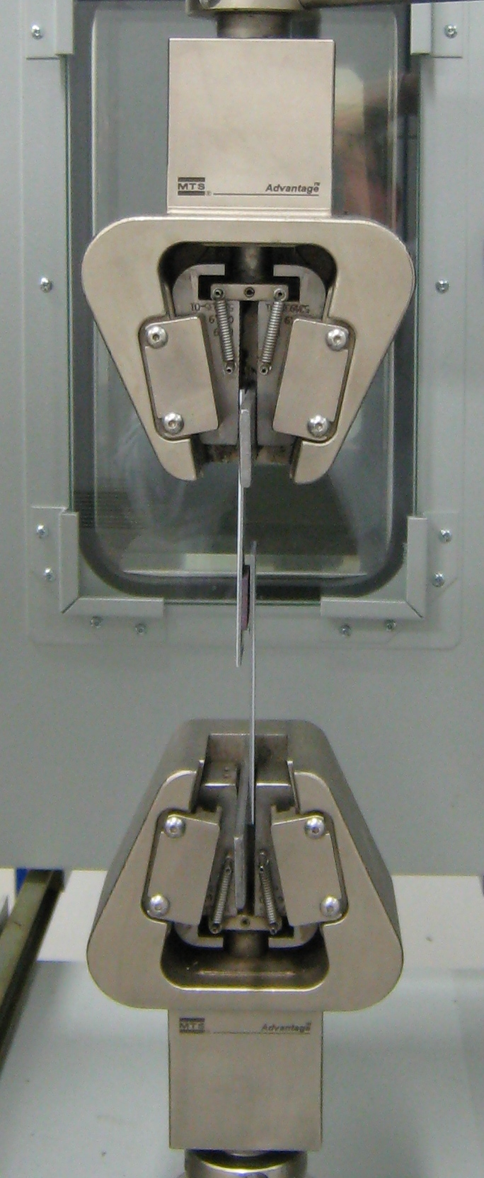 Wedge action jaws in a testing machine equipped with a dynamometer. (Tensile-)shear test on an adhesive joint (system steel support-adhesive (purple)-steel support ; using a set of 2 realignment steel hold). The upper jaw is mobile (crosshead moving upward for this test).